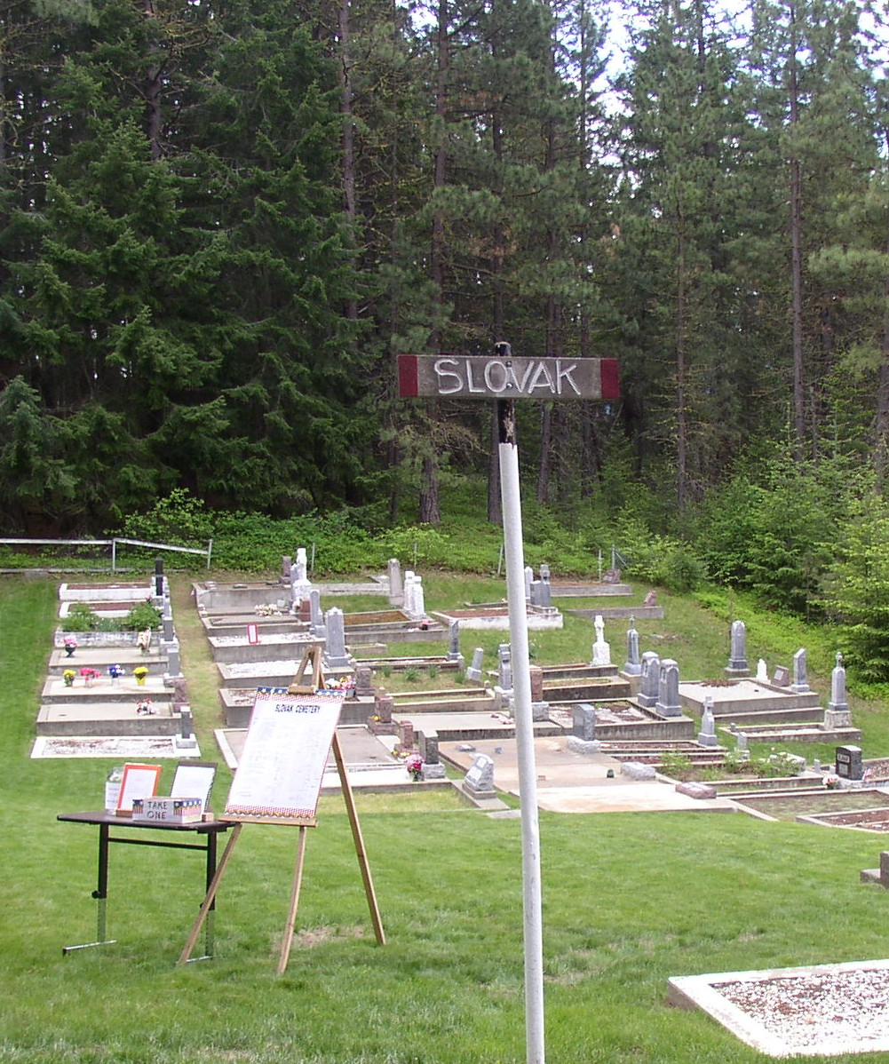 People used to be separated by nationality in the Roslyn cemetery. Slovak Cemetery in Roslyn, Washington. Photo taken and uploaded by Williamborg 02:38, 2 June 2006 (UTC)